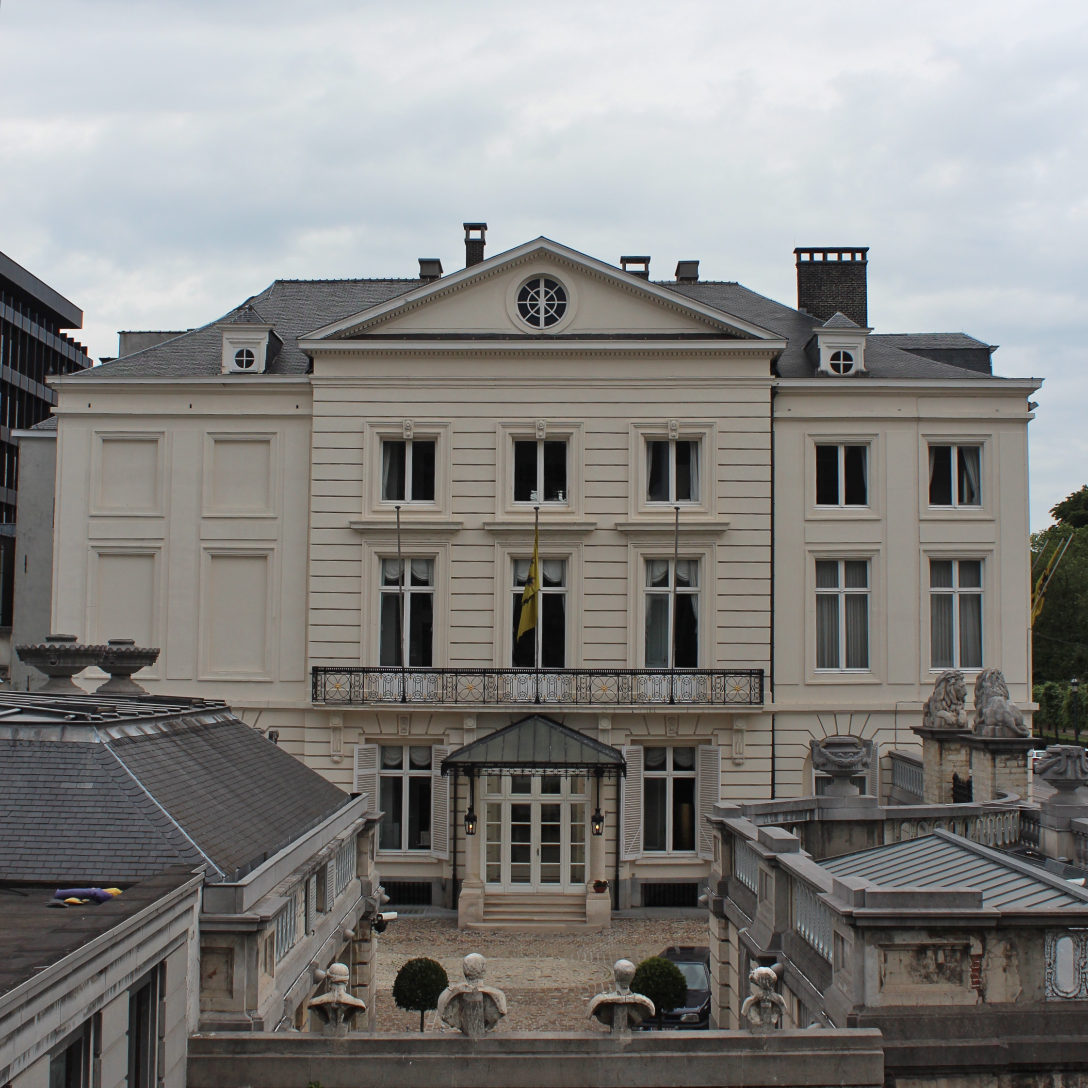 Hotel Errera Rue Royale 14 Koningsstraat Brussels